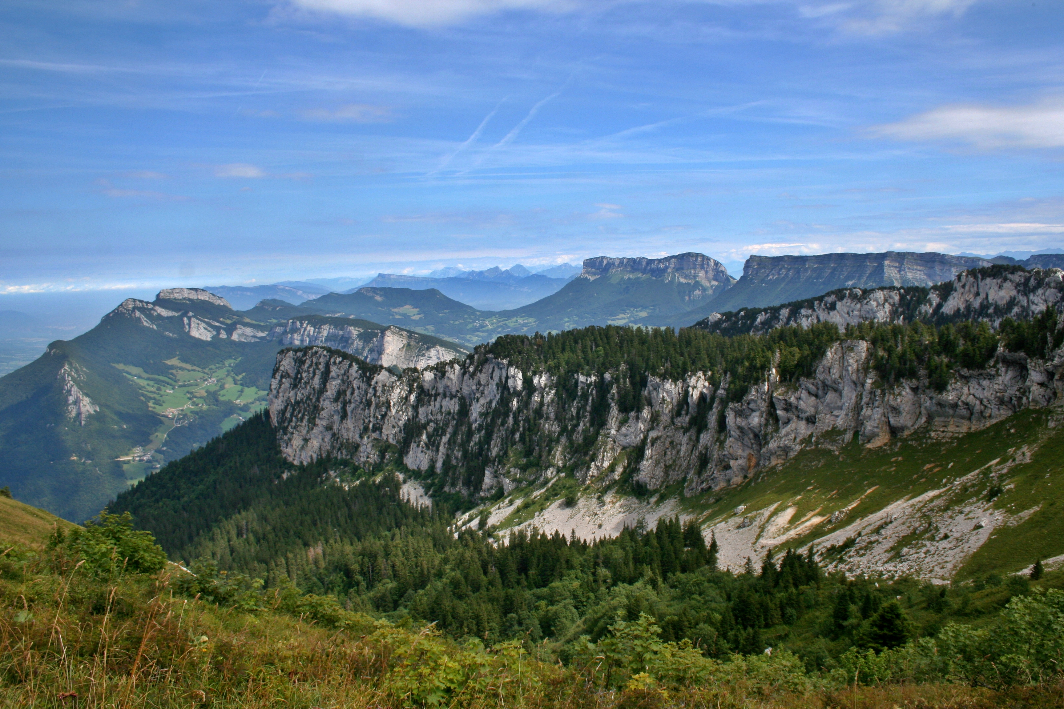 View from the pastures climbing from the Léchaud pass to the petit som summit on the northern half ot the Chartreuse mountains. Image taken near Saint-Christophe-sur-Guiers, Isère, France.